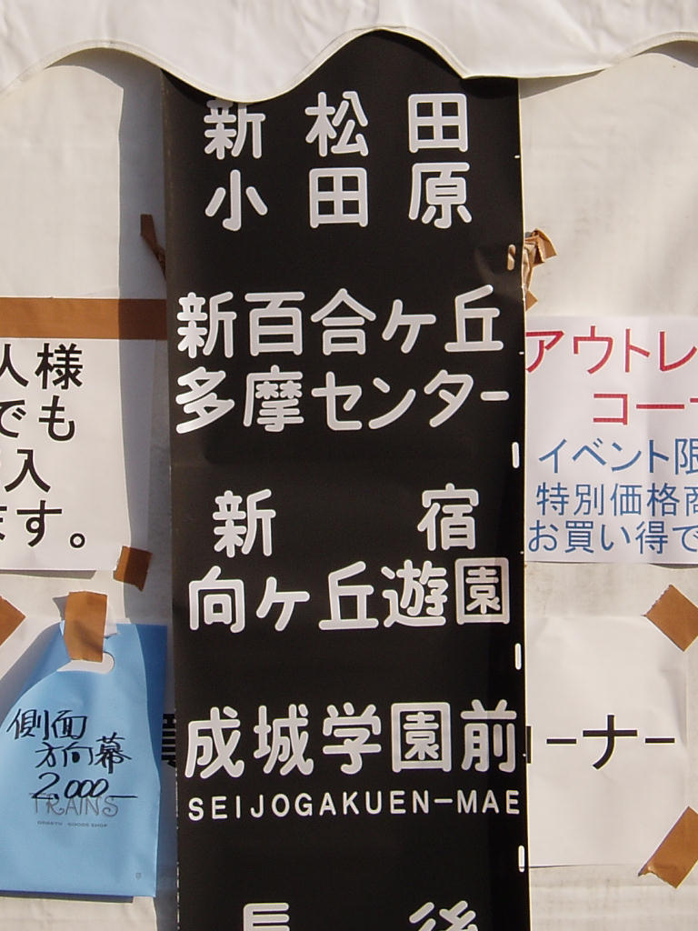 Train side information board(Odakyu)